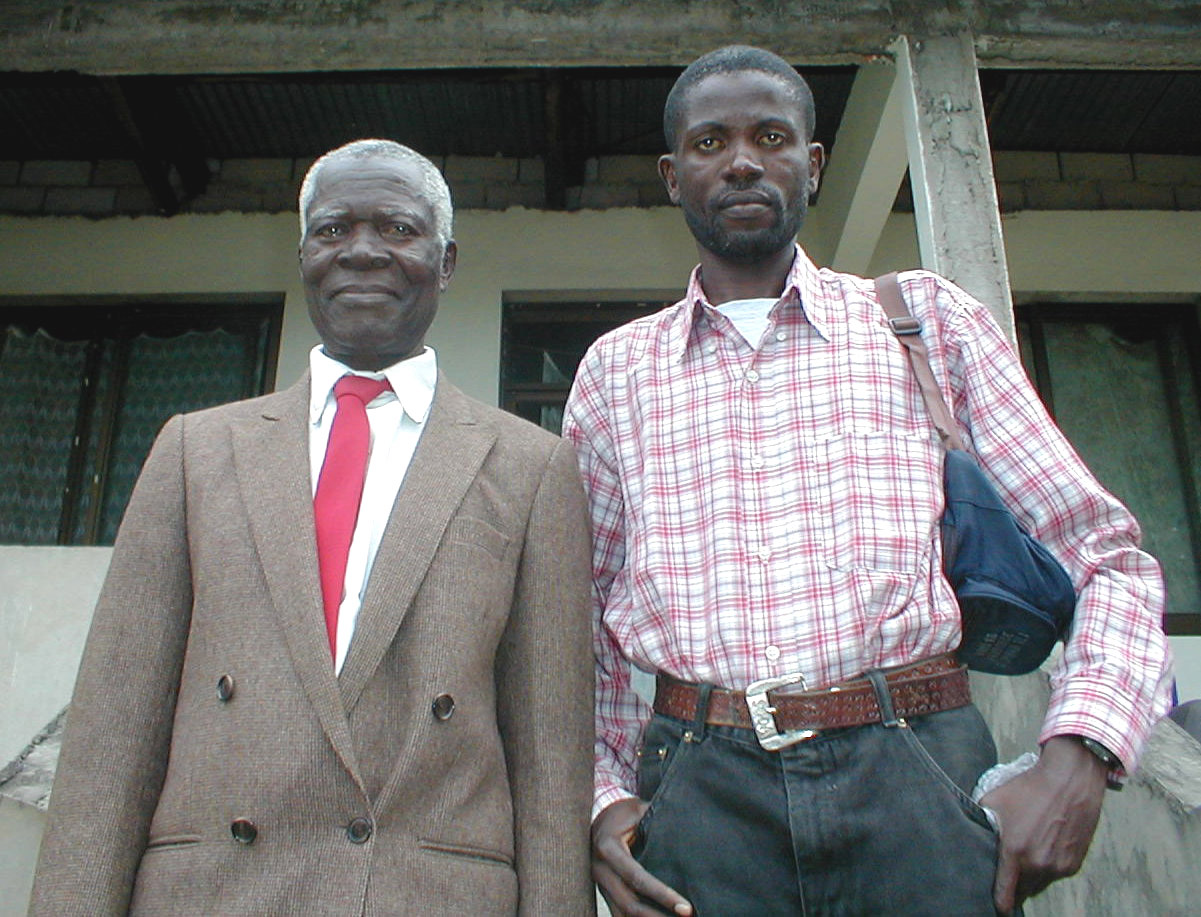 Two men of the Democratic Republic of the Congo.